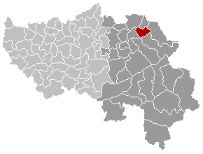 Map, municipality belgium Lontzen